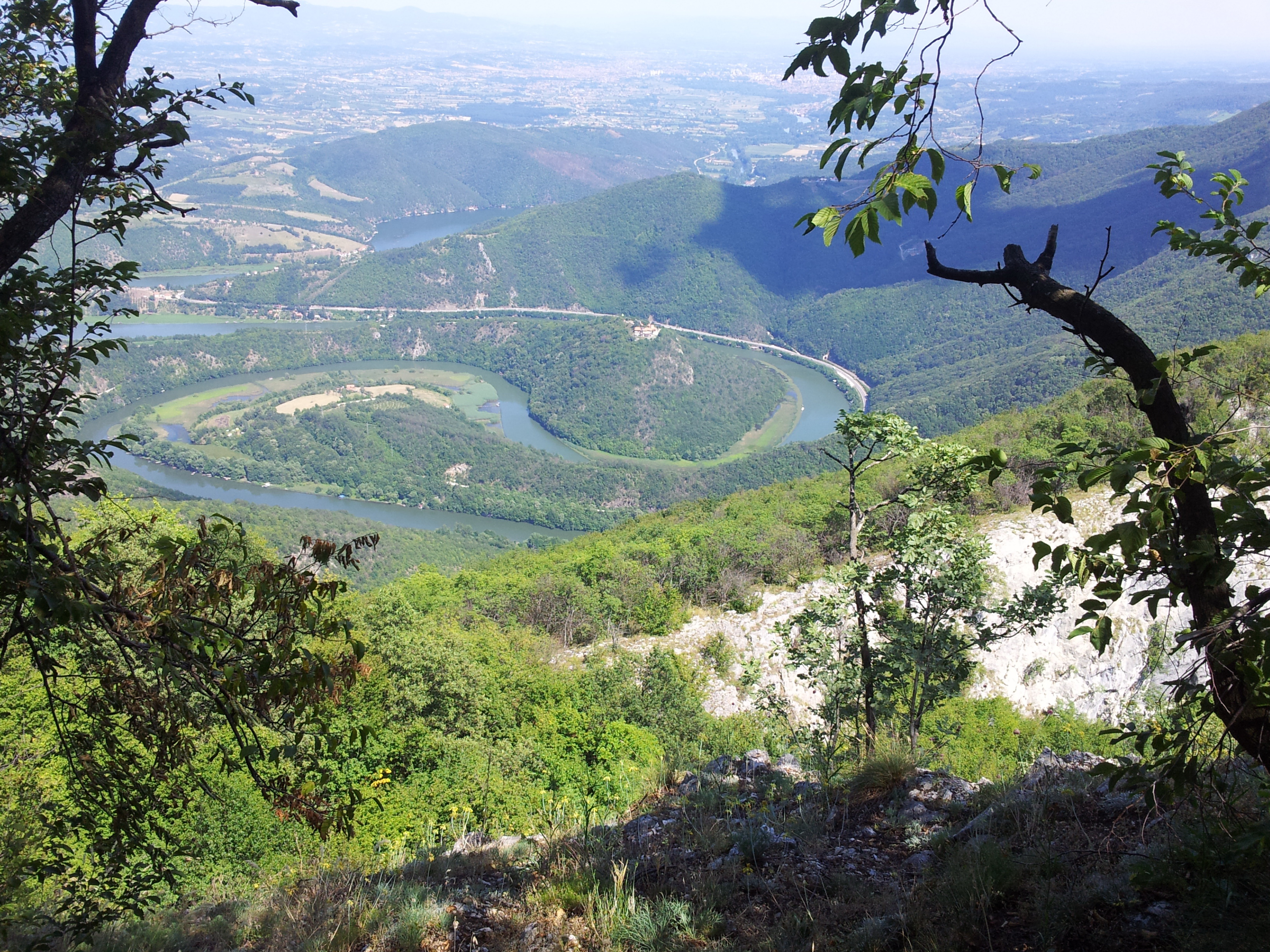 Чачак, Лучани